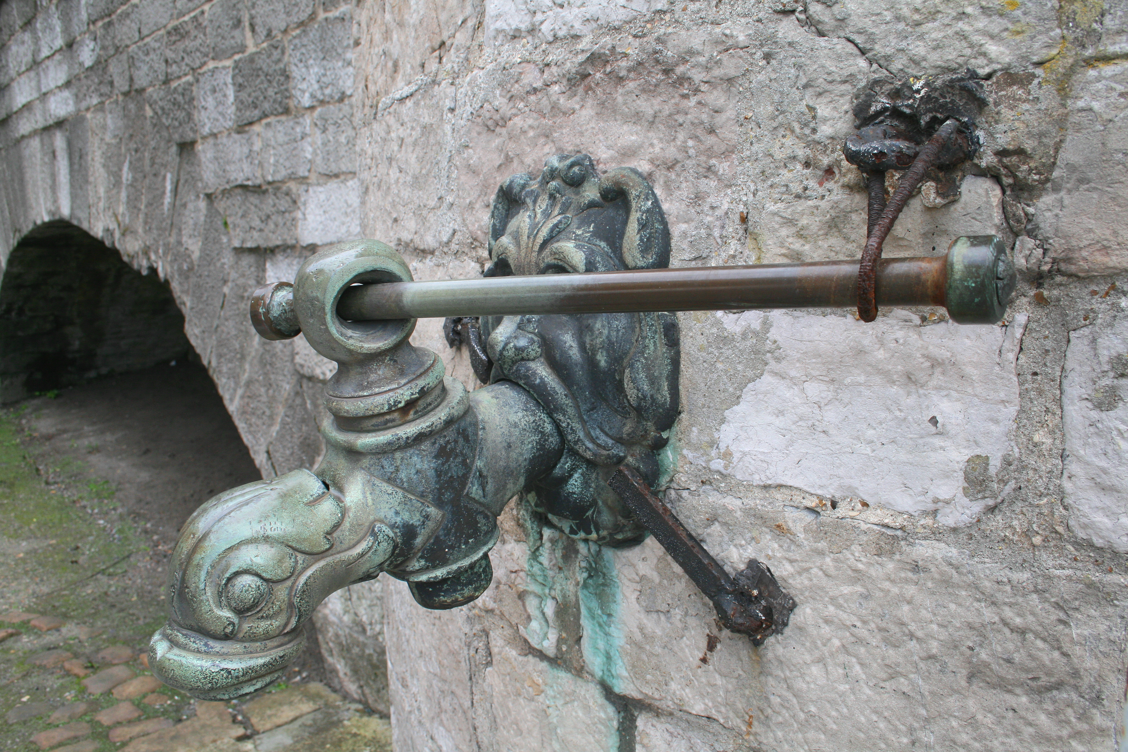 Gravelines (Nord) France, large bronze faucet of of the cistern of the citadel.